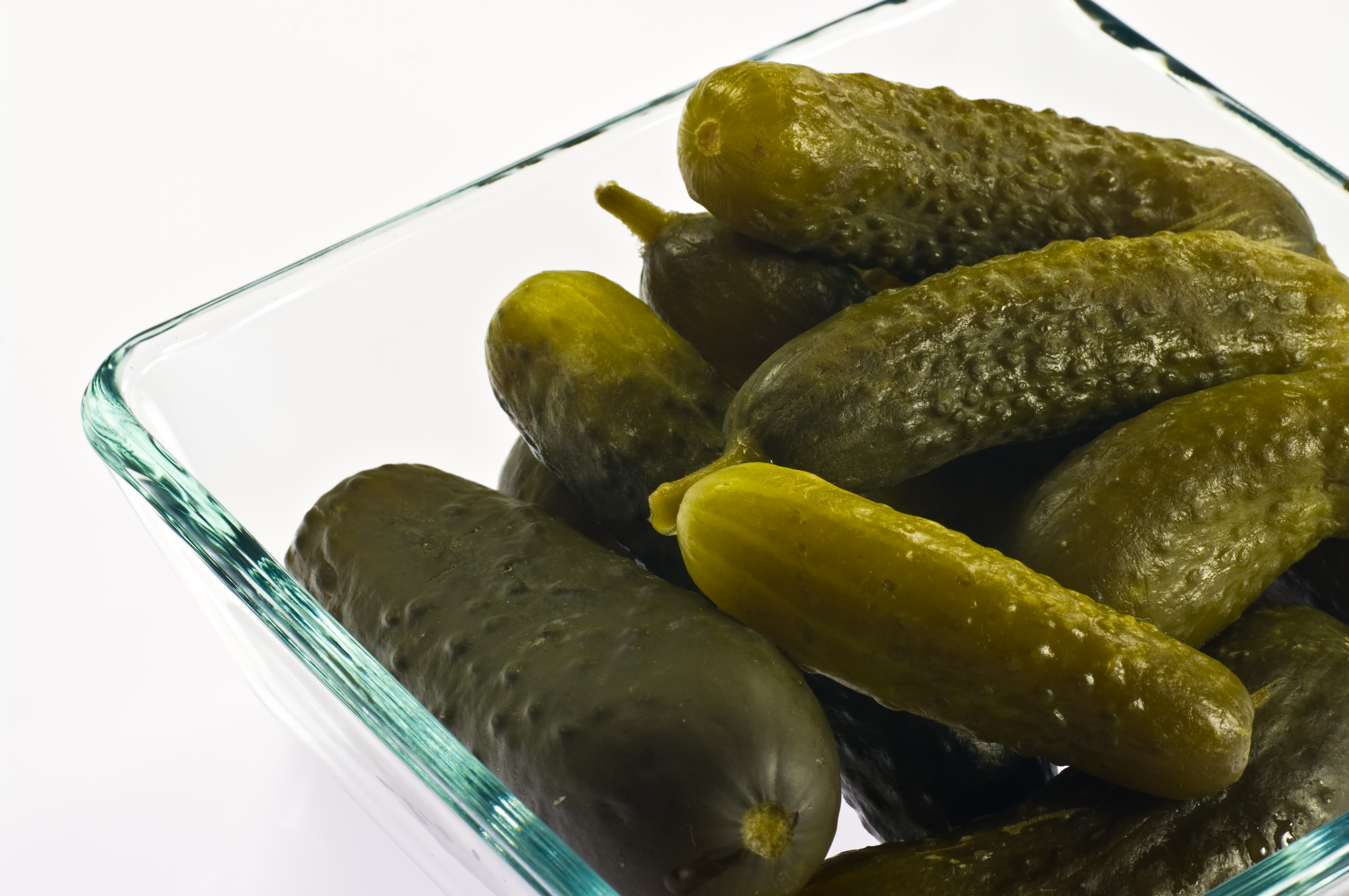 Polish style pickled cucumbers